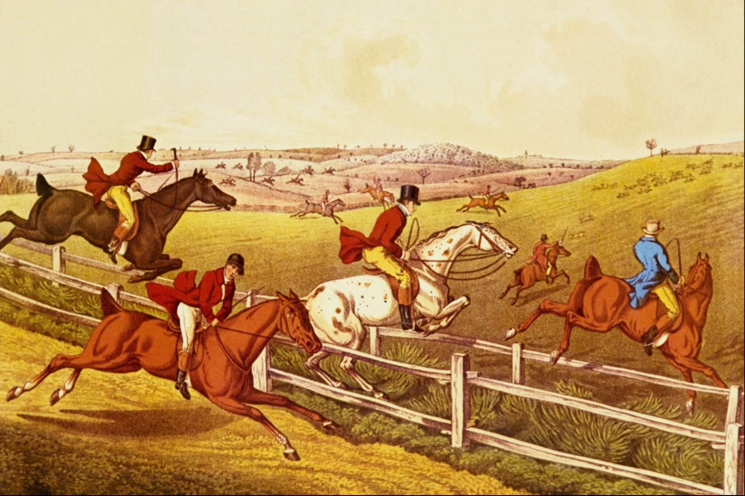 Fox Hunting